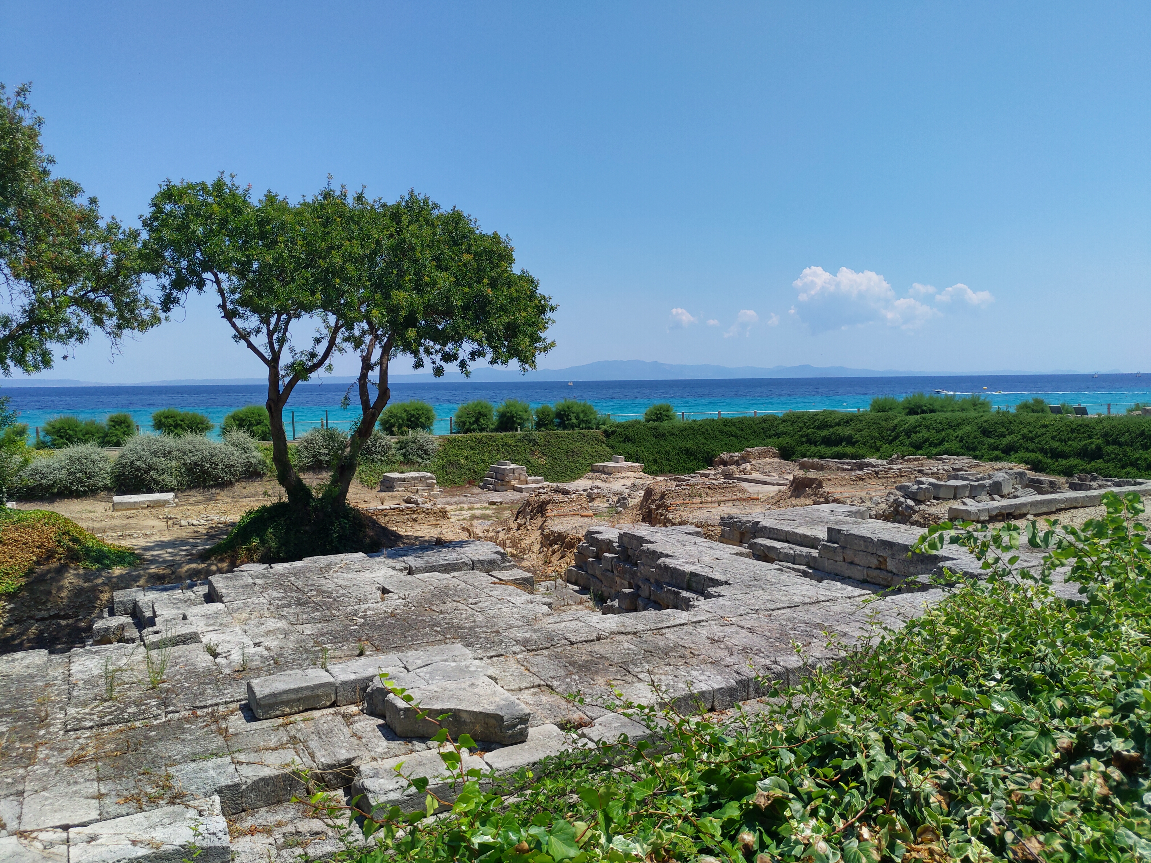 Archaeological site of the Sanctuary of Zeus Ammon, Kallithea, Kassandra, Chalkidiki, Greece.